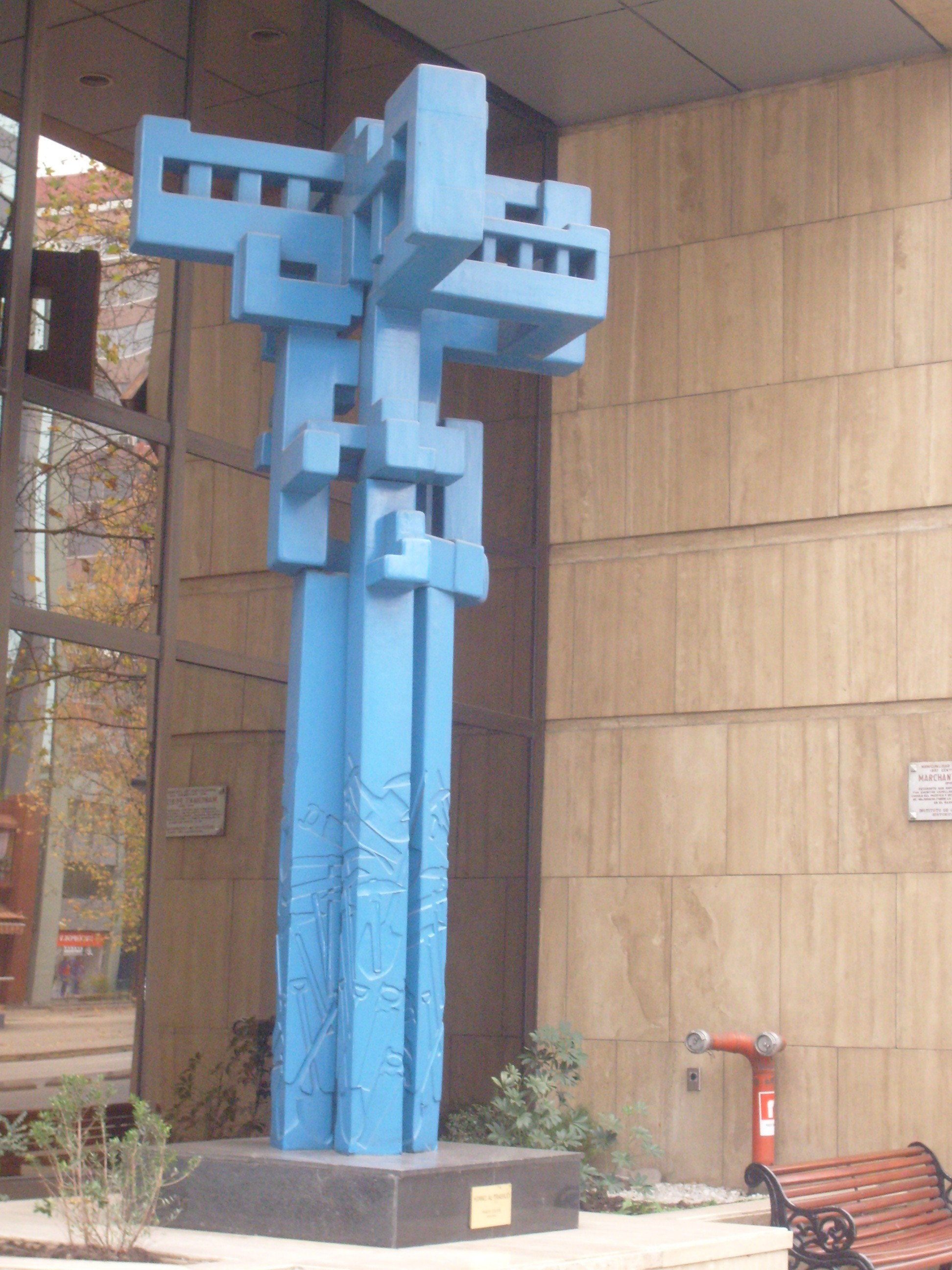 Marta Colvin, Work Hymn (Himno al Trabajo), Front Cámara Chilena de la Construcción, Providencia, Santiago Chile